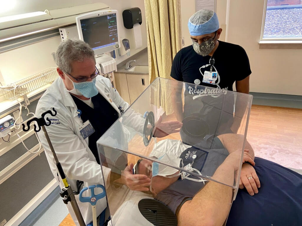 Intensive Care Unit (ICU) physicians from Virtua Memorial Hospital in Mount Holly, New Jersey (USA) practice using a COVID-19 Intubation Safety Box manufactured by Ascalon Studios, Inc. An innovative makeshift personal protective equipment (PPE) device, the box was originally developed by Taiwanese doctors in the light of the shortage of PPE facing hospitals during the COVID-19 pandemic crisis. Taking the form of an acrylic cube with flap-covered hand holes, the box is placed over an infected patient during the course of intubation and extubation in order to minimize healthcare worker contact with infected droplets that emanate during the process. The evolving designs have been part of an open source design initiative in which manufacturers, such as Ascalon Studios, retooled their facilities in order to produce the device to donate to hospitals throughout their geographic regions.